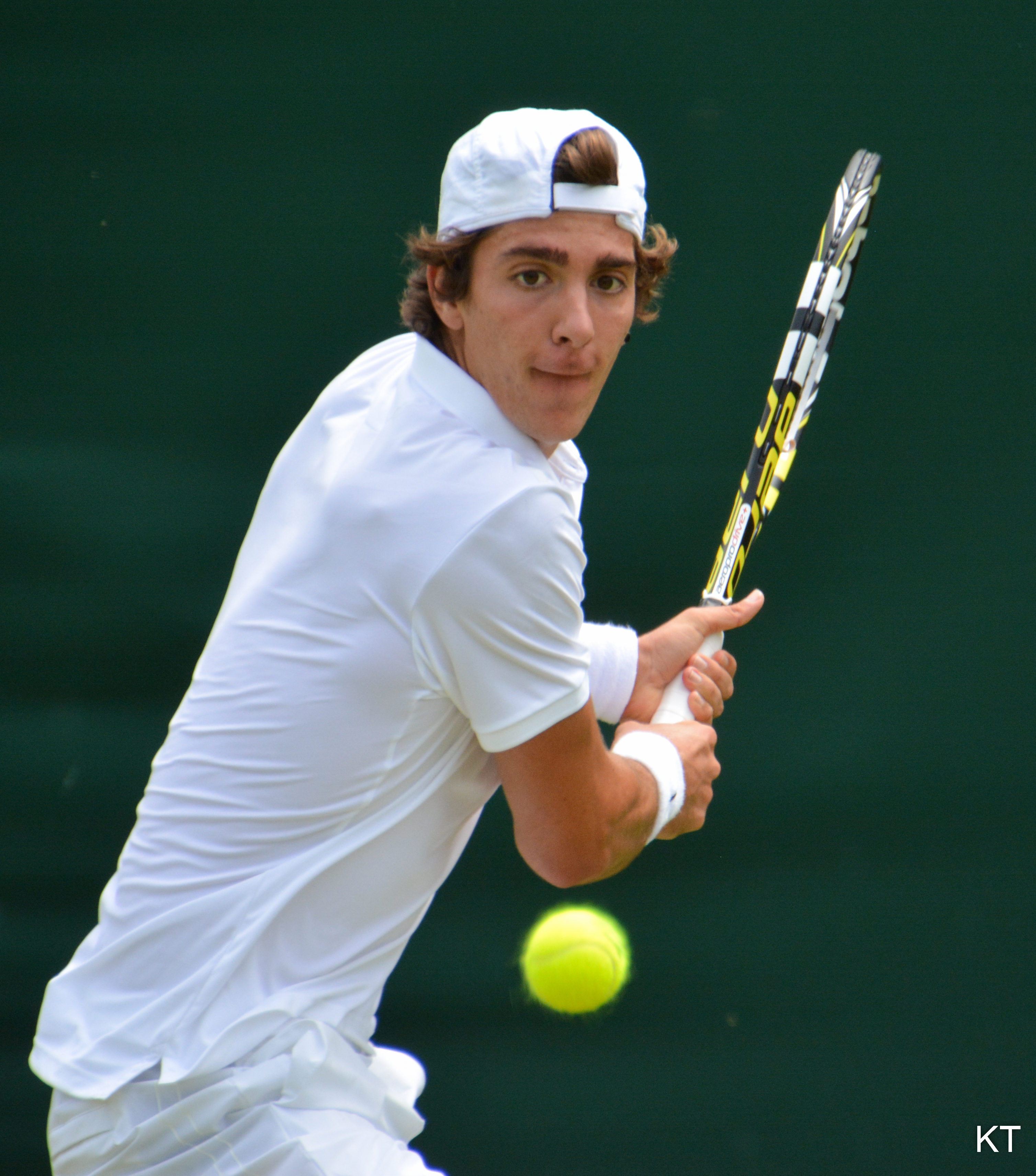 Day 1 of Wimbledon 2015.